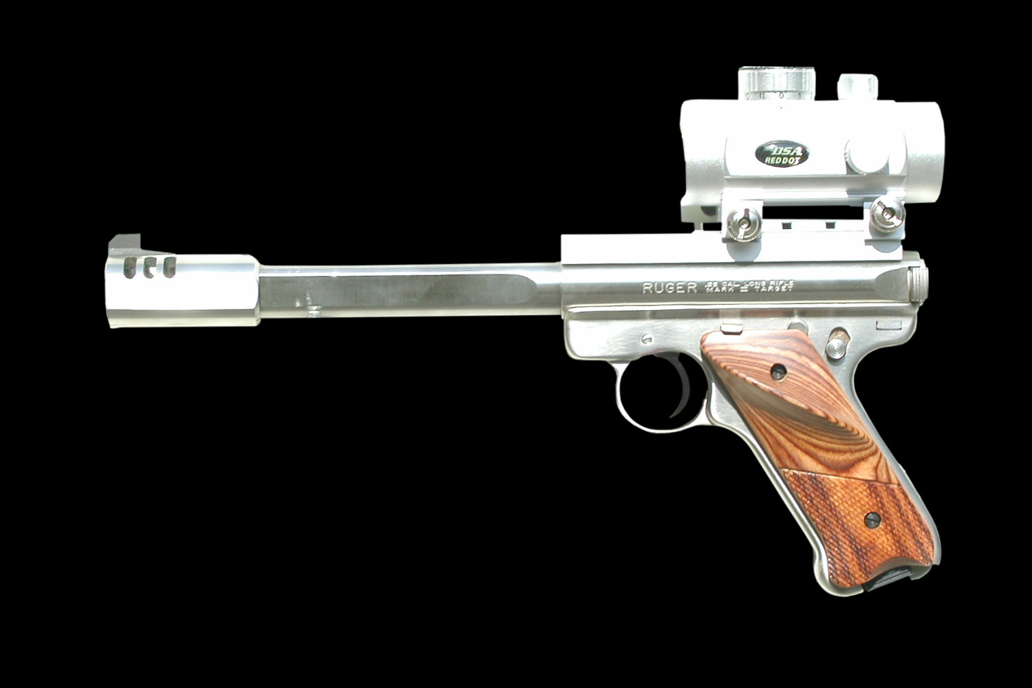 Ruger Mark II Stainless Slab-side Competition Target Model 22LR pistol with Volquartsen slabside-profiled V-Comp compensator, Volquartsen Weaver-style rail for optics, BSA red dot sight, Volquartsen recoil buffer. 6 7/8" precision-crowned barrel and checkered thumbrest target grips.